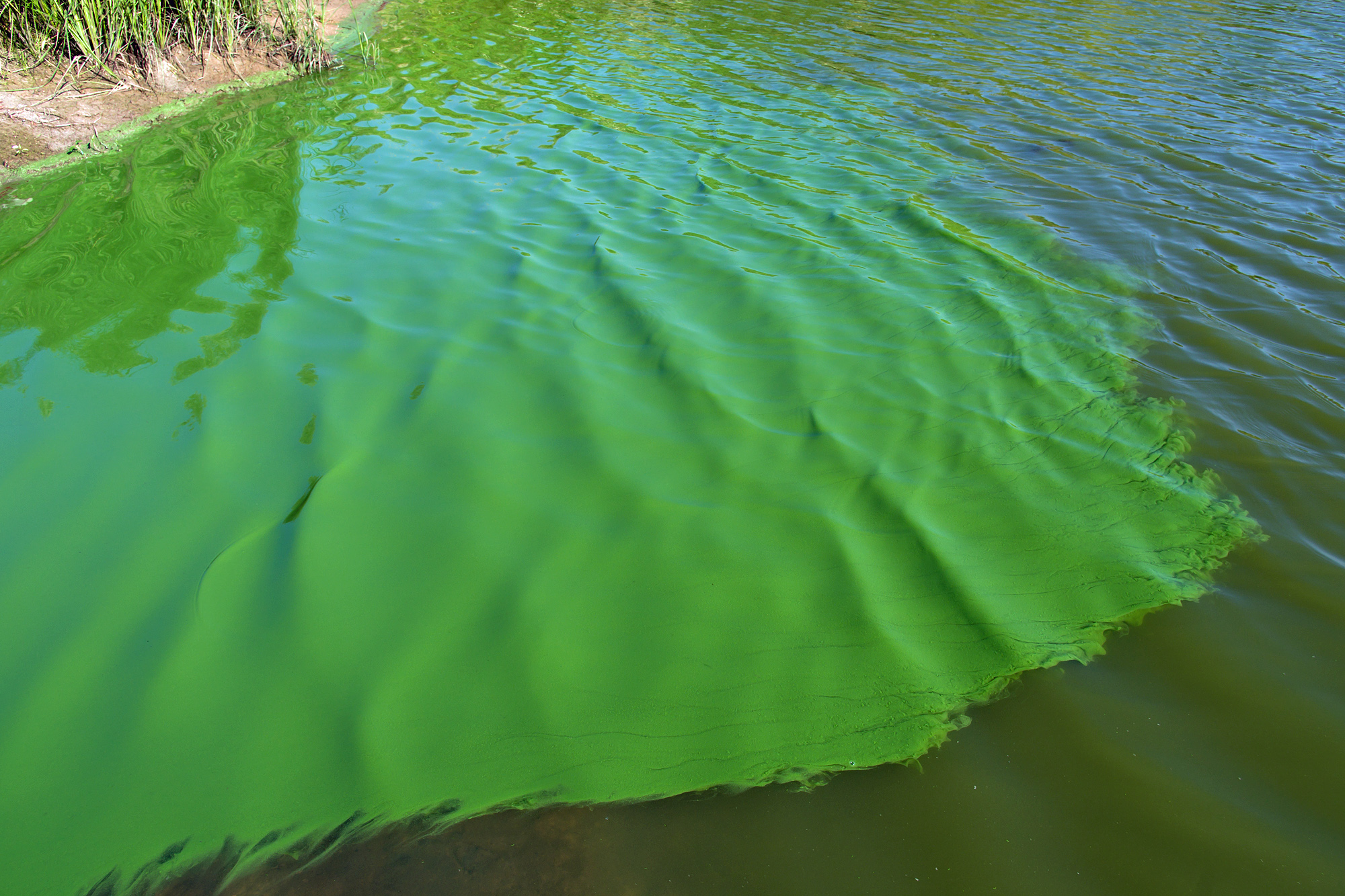 Bloom of cyanobacteria in a freshwater pond. This accumulation in one corner of the pond was caused by wind drift. It looked as if someone had dumped a bucket color into the water.